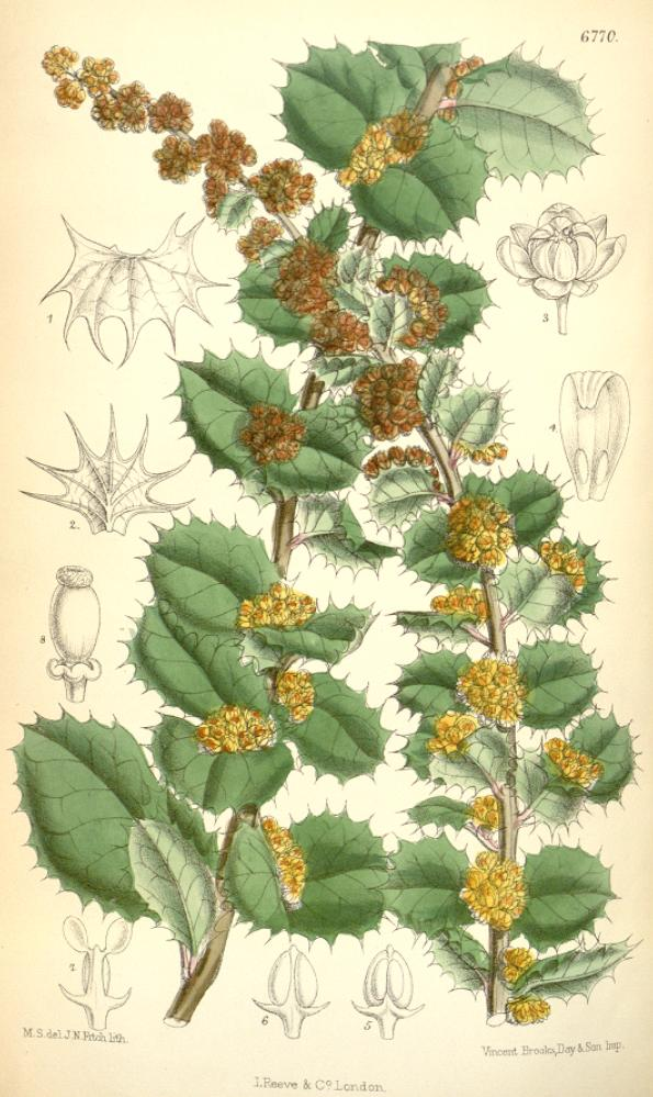 colour-drawing of Berberis actinacantha, originally ddescribed as Berberis congestiflora var. hakeoides